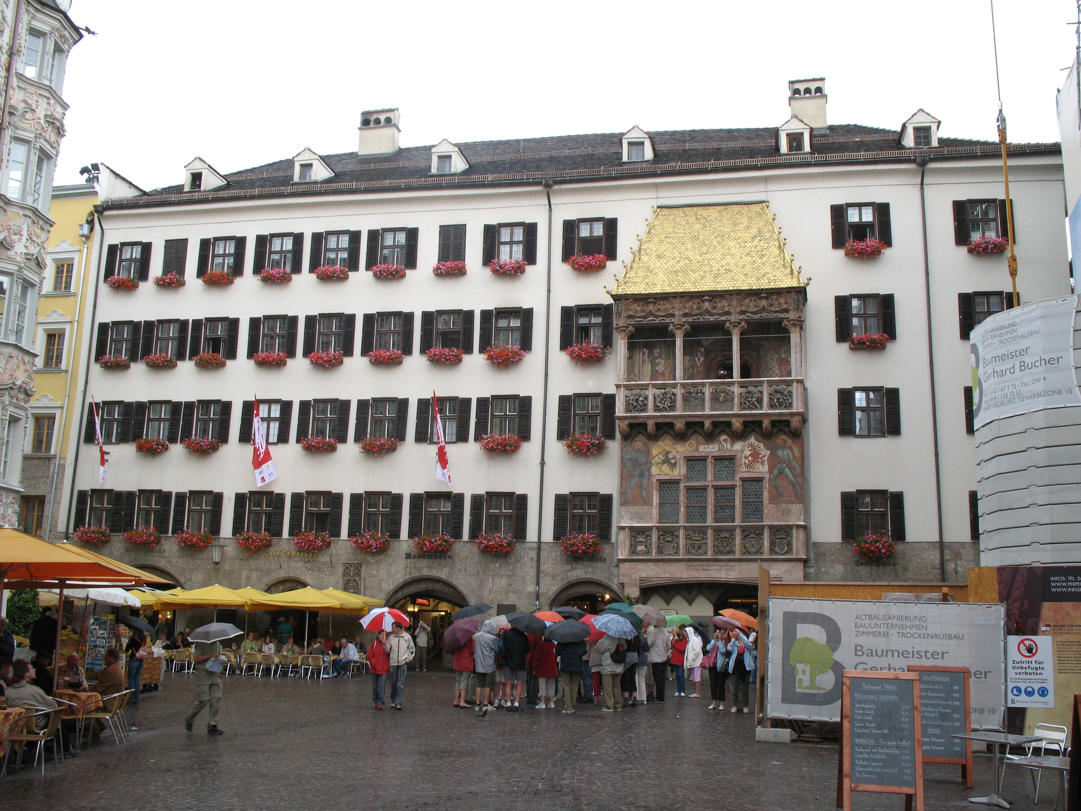 Golden Roof, Innsbruck, Austria